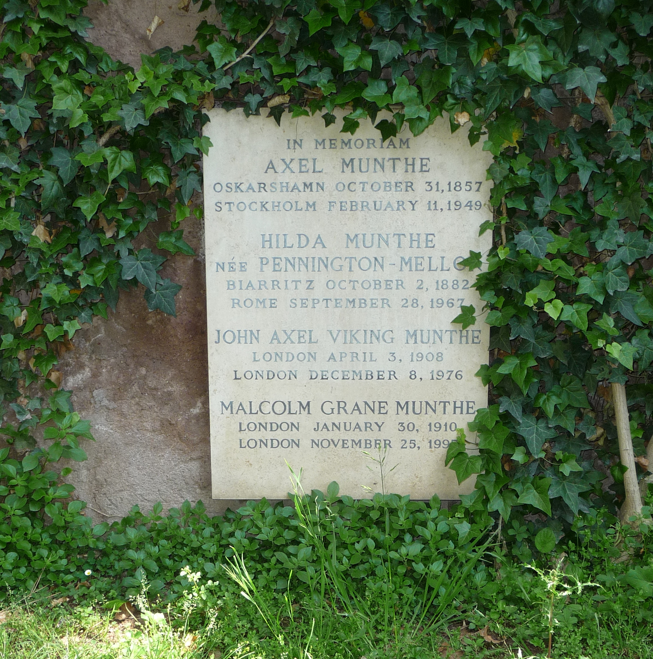 Memorials of the Munthe-family in Rome, cimitero accatolico